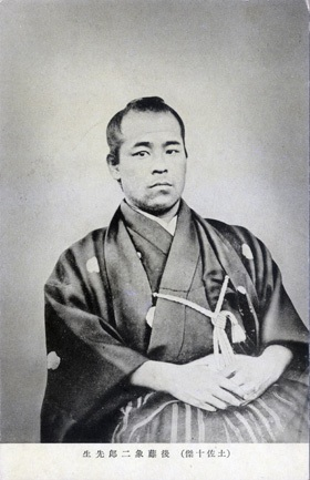 Gotō Shōjirō (1838-1897)